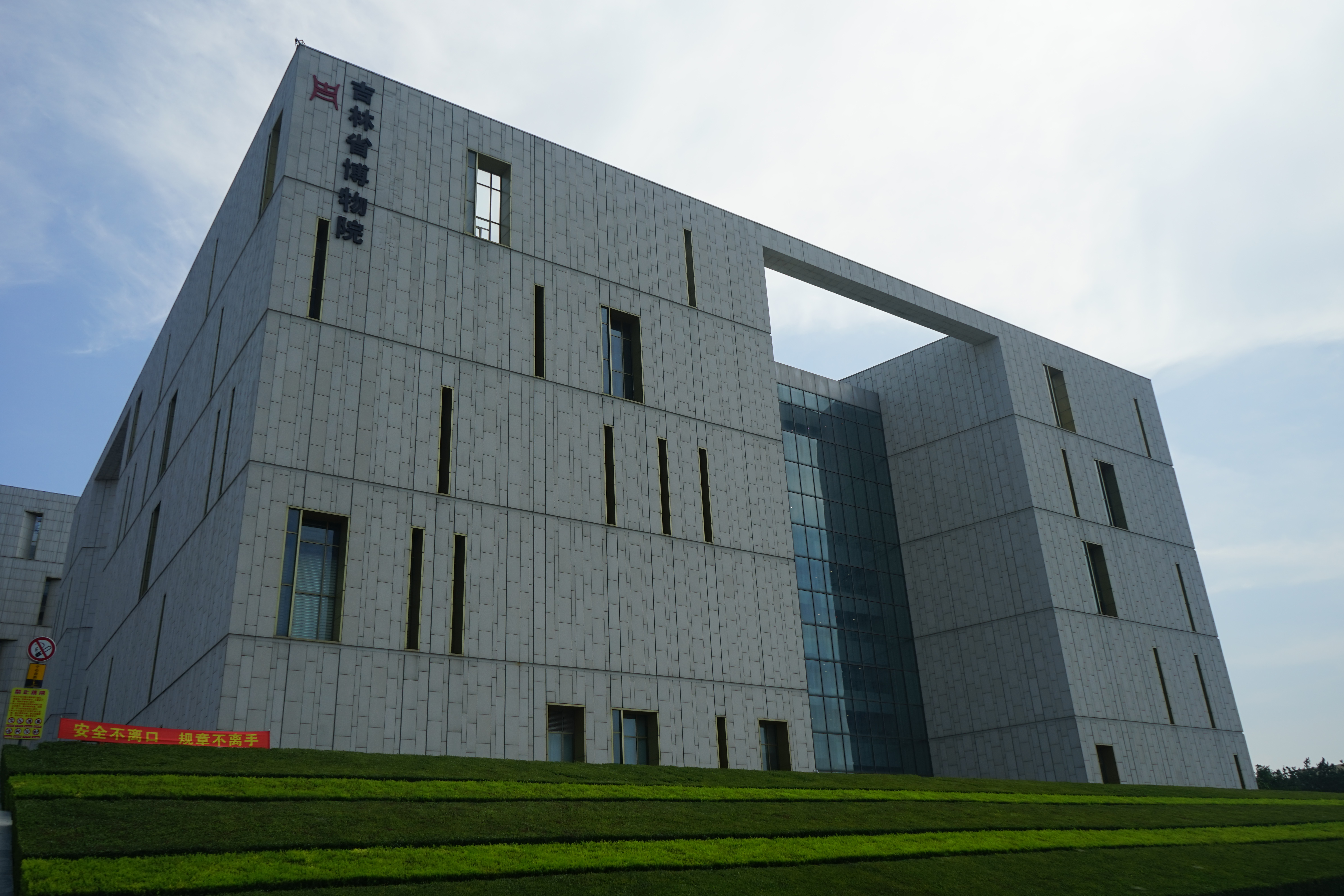 Jilin Provincal Museum New Building